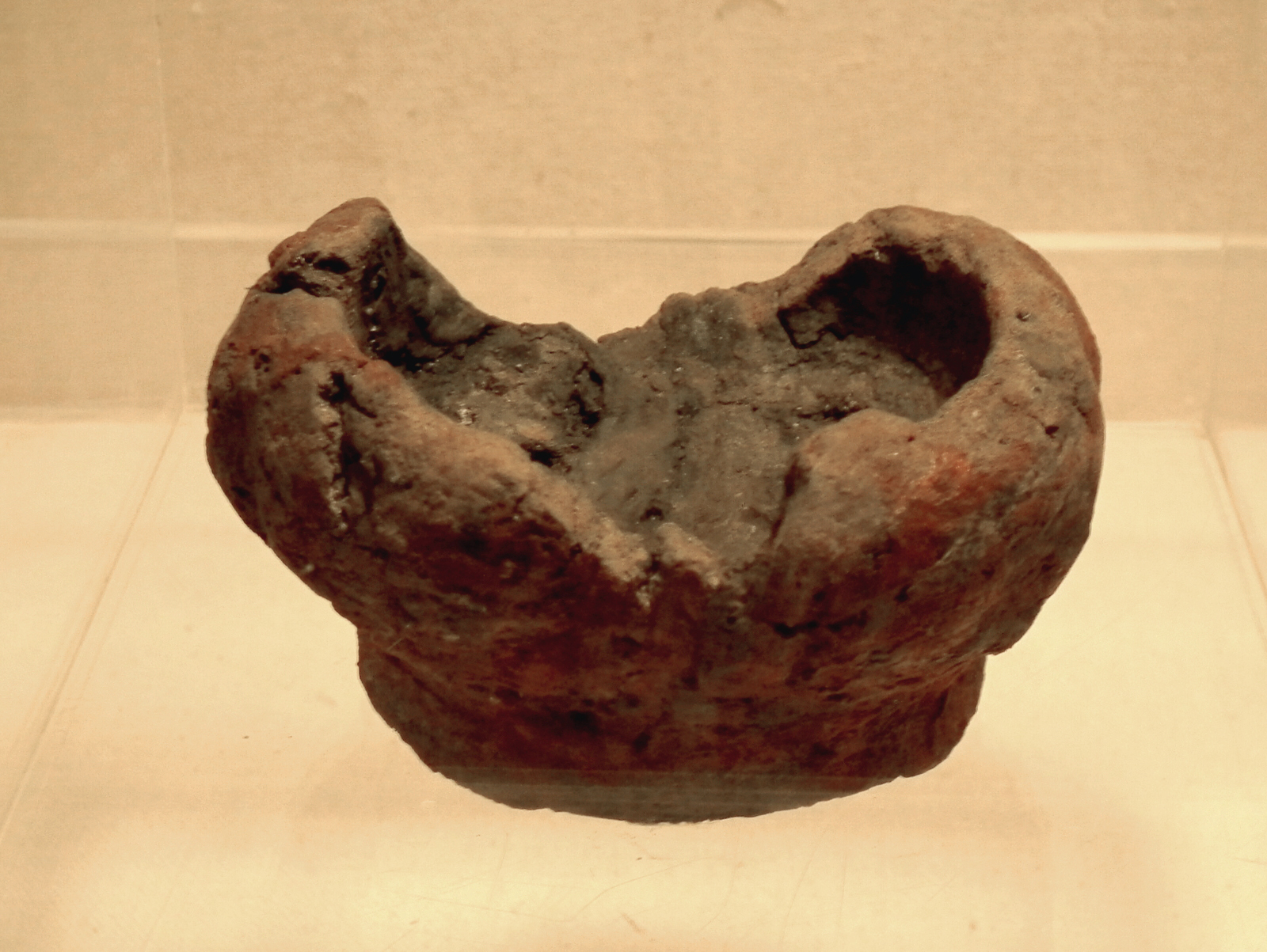 Collected and exhibited in Zhejiang Provincial Museum.